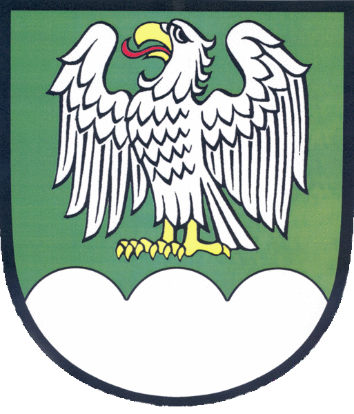 Coat of arms of the municipality Schönhagen im Eichsfeld in Thüringen, Germany.